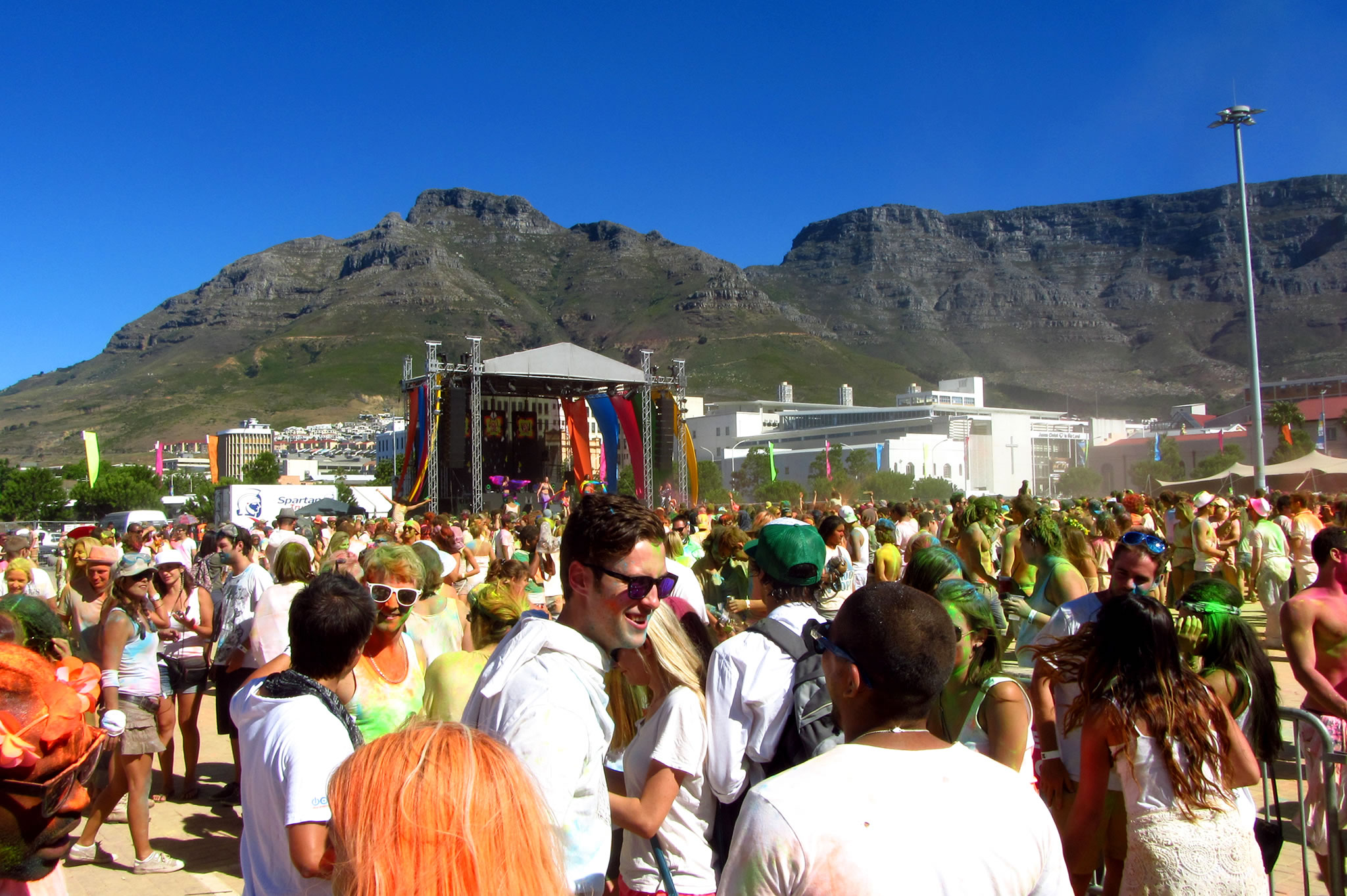 Scenes from the inaugural Cape Town Holi One/We Are One Colour Festival at the Grand Parade on Saturday 2 March 2013. The festival, which started as the spring festival celebrated by Hindus, now travels around the world promoting a spirit of camaraderie and togetherness.